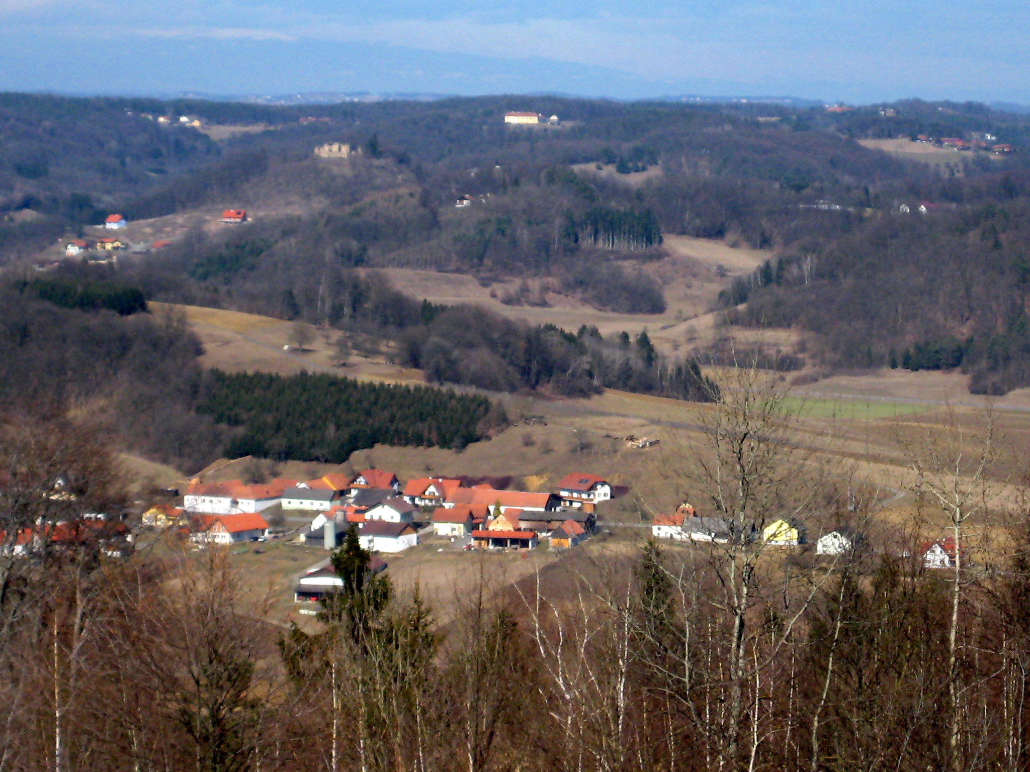 Žabnica, slovene name for a village Krottendorf on the Austrian side of the border with Slovenia